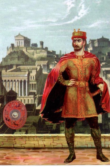 Pharsmanes II of Iberia